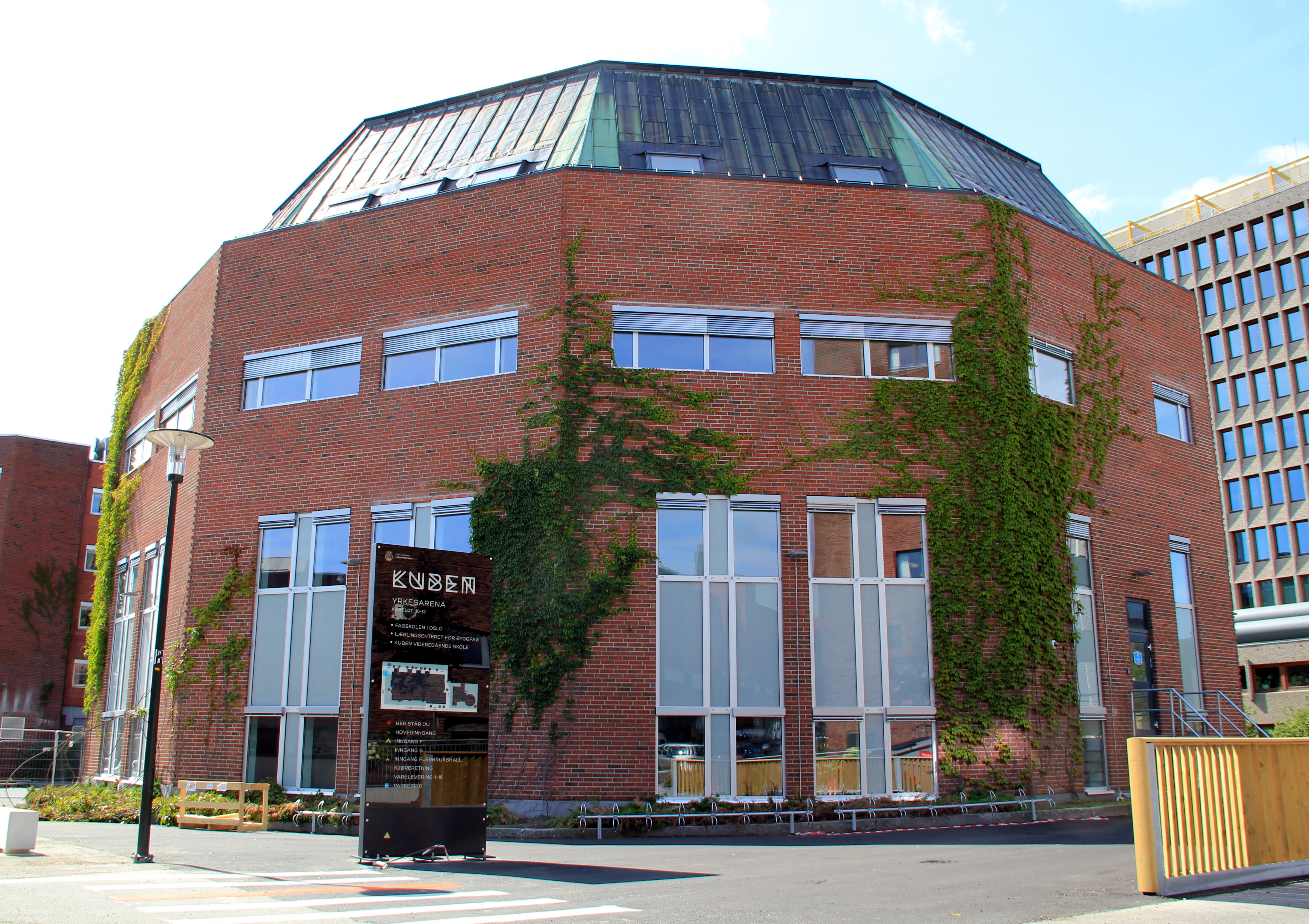 BiKuben is the building for general studies at Kuben Upper Secondary School in Oslo